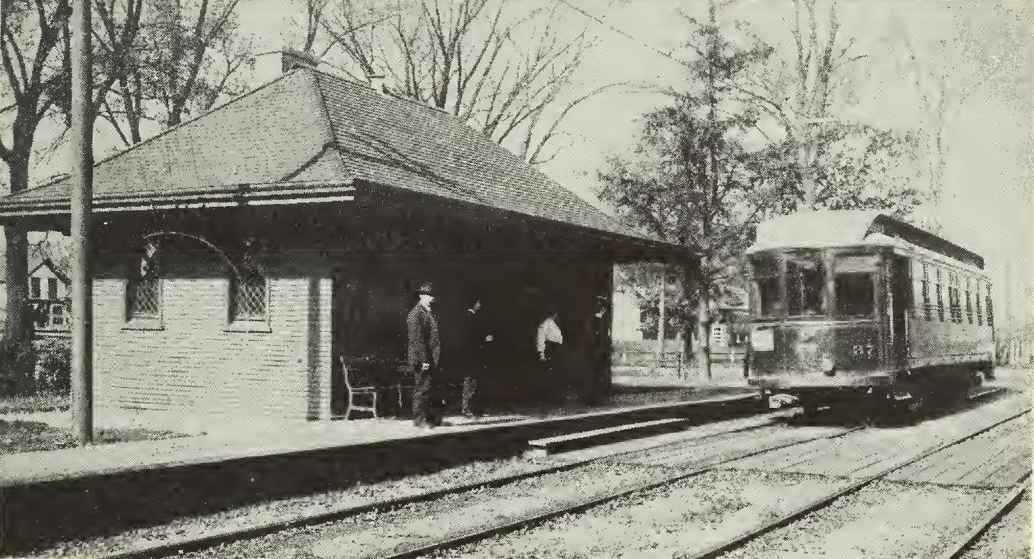 Wilmette and the suburban whirl : a series of historical sketches of life in the suburb from the turn of the century by Mulford, Herbert B Publication date 1956 Publisher Wilmette, Ill. : Wilmette Public Library Collection university_of_illinois_urbana-champaign; americana Digitizing sponsor University of Illinois Urbana-Champaign Contributor University of Illinois Urbana-Champaign Language English Bookplateleaf 0004 Call number 1151568 Camera Canon EOS 5D Mark II Identifier wilmettesuburban00mulf Identifier-ark ark:/13960/t71v6mz0x Ocr ABBYY FineReader 8.0 Openlibrary_edition OL25293649M Openlibrary_work OL16610530W Page-progression lr Pages 150 Possible copyright status Public domain. Published 1923-1963 with notice but no evidence of copyright renewal found in Stanford Copyright Renewal Database. for information. Ppi 500 Scandate 20120501162229 Scanner Scanningcenter il